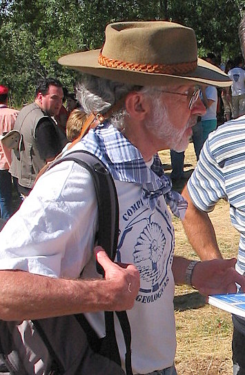 Francisco Anguita Virella, spanish geologist. June 30th, 2007